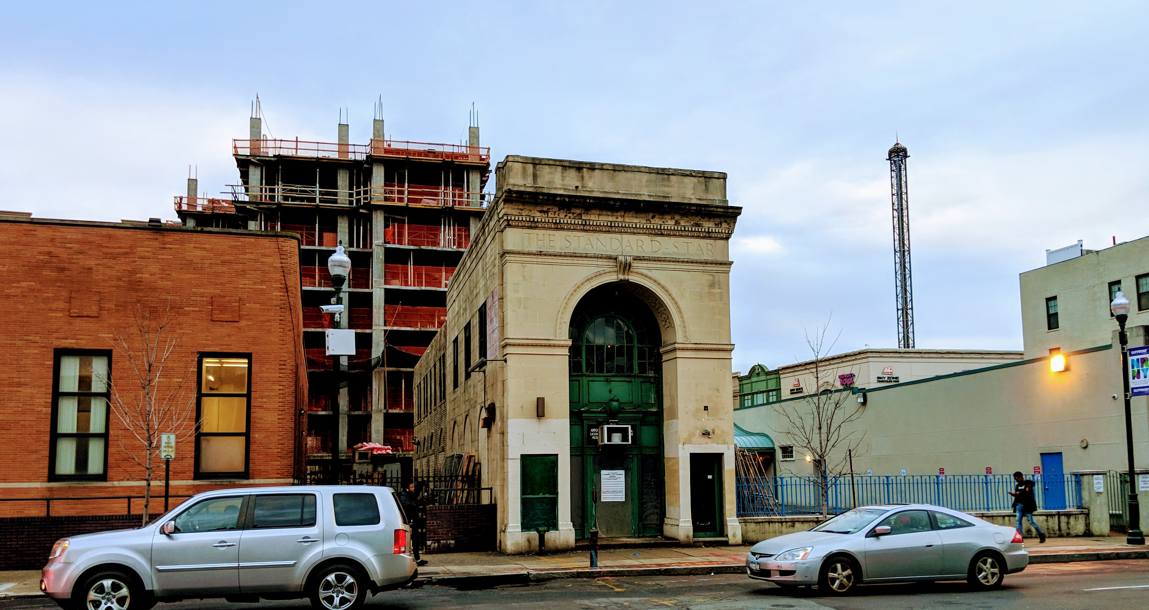 The Space Needle (185'x8'x8') ride atop New Roc City is a 12 seat roller coaster type ride